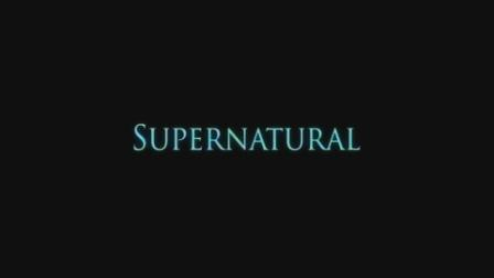 Season one title card of the TV series Supernatural